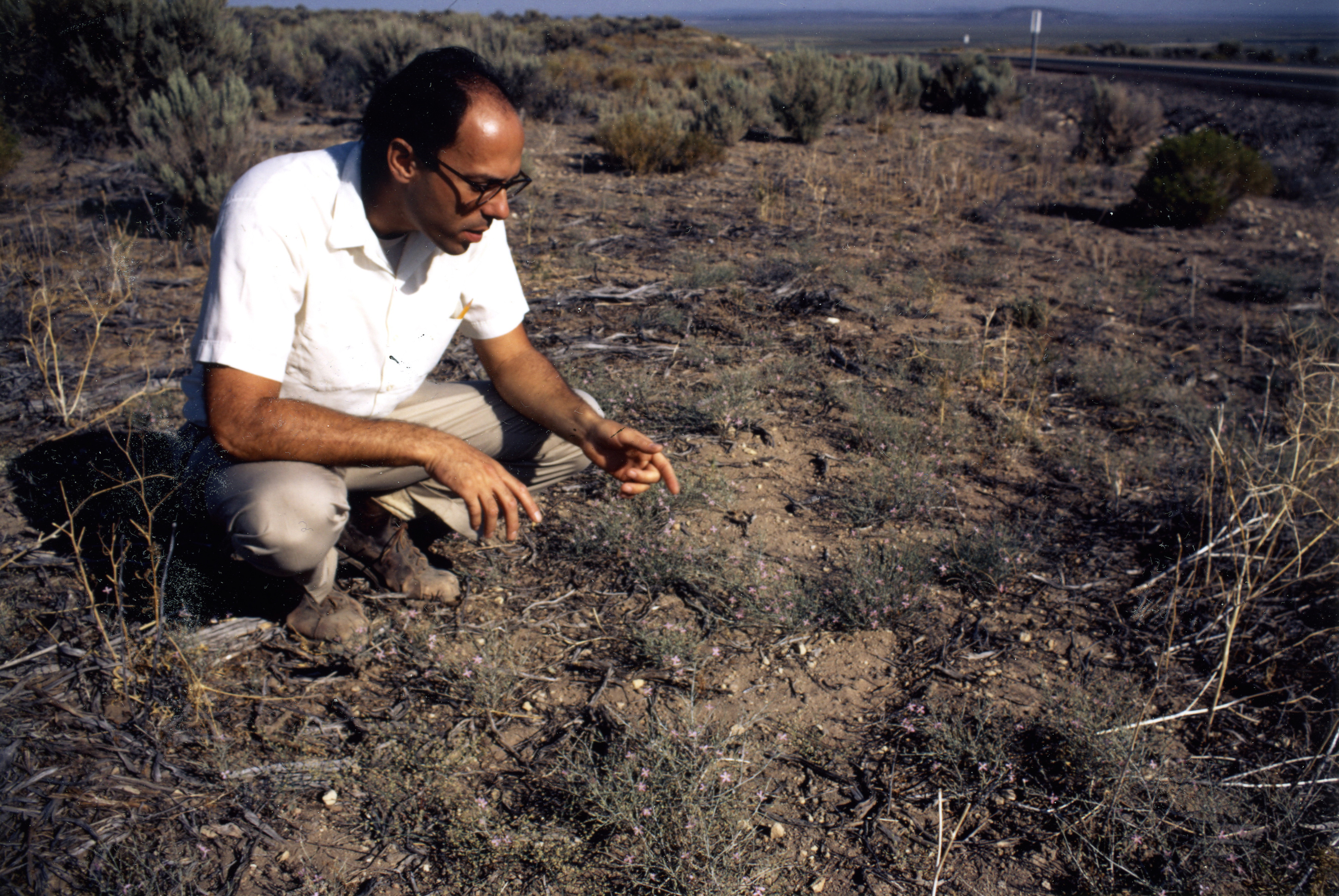 Leslie Gottlieb pointing to Stephanomeria malheurensis